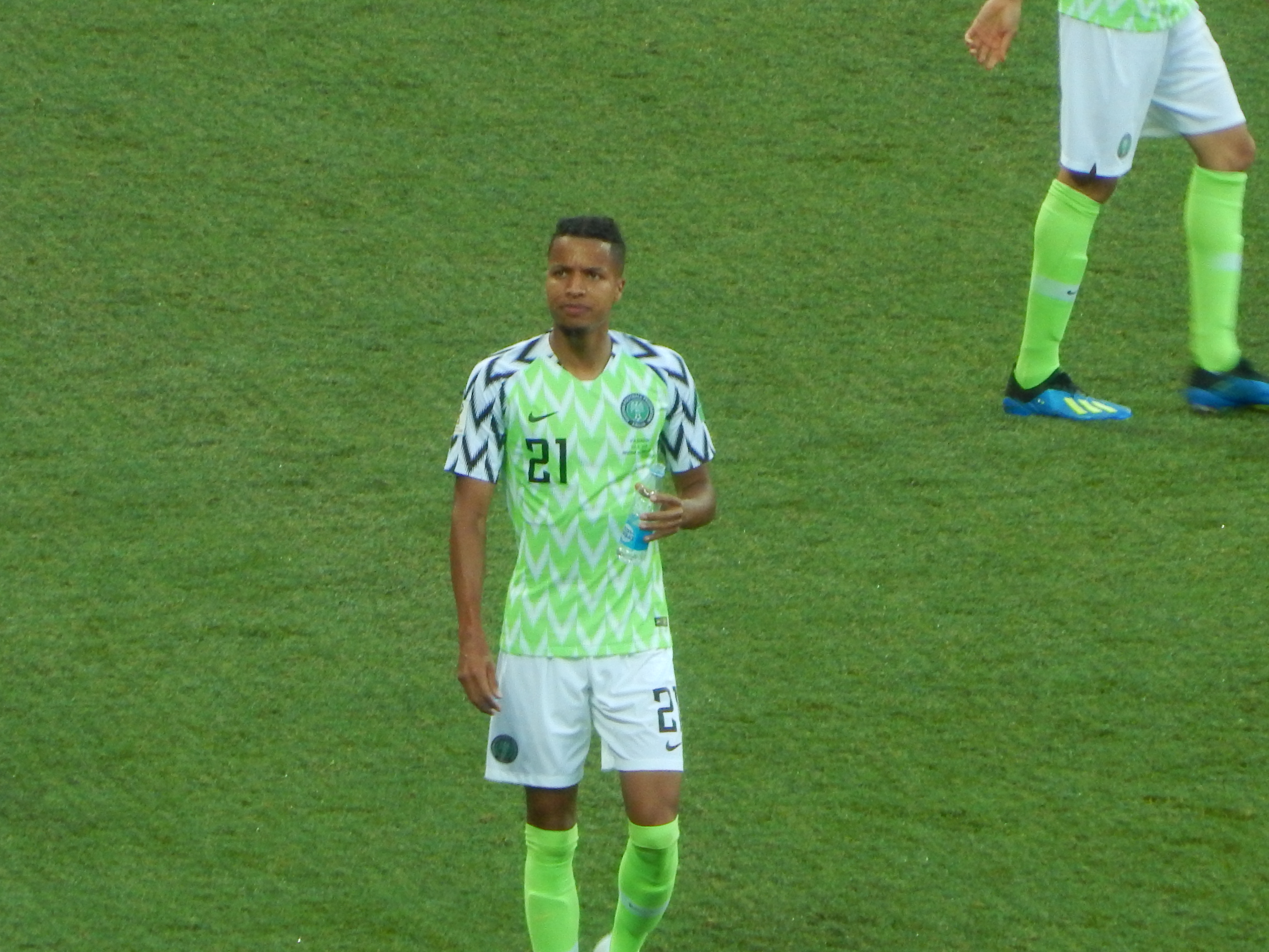 FIFA World Cup 2018, Group D, Nigeria vs. Iceland